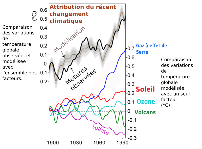 Climate_Change_Attribution_fr